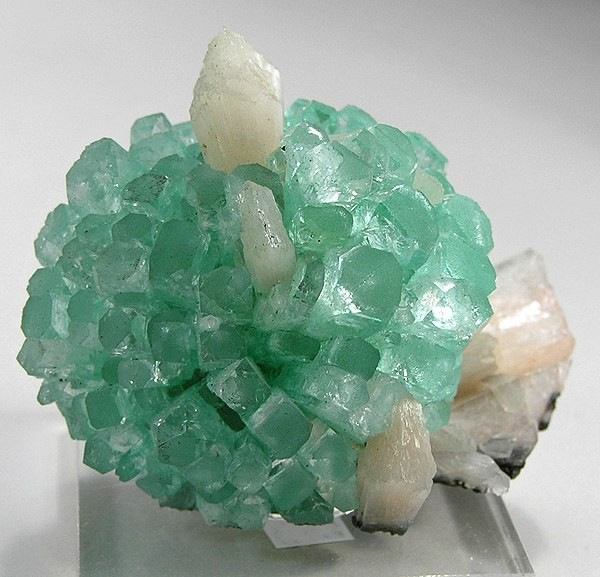 Apophyllite-(KF), Stilbite-Ca Locality: Momin Pada, Rahuri, Ahmadnagar District (Ahmednagar District; Ahmed Nagar District), Maharashtra, India (Locality at ) Size: 4.8 x 3.9 x 3.1 cm. A perfect BALL of bright mint green, blocky crystals of apophyllite, accented beautifully by shimmering blades of light salmon/cream stilbite. This ball of crystals is complete all the way around. A KILLER mini, just super-aesthetic as you can see!